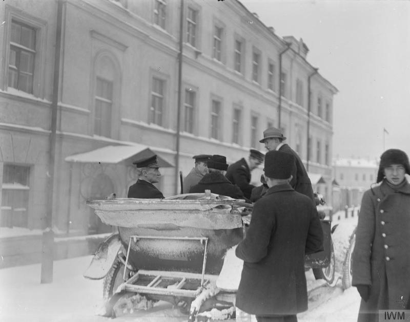 The British Naval Campaign in the Baltic, 1918-1919 Rear-Admiral Hugh Sinclair lands at Reval (Tallinn). Leaving landing stage in a car with Estonian officers, 1918.